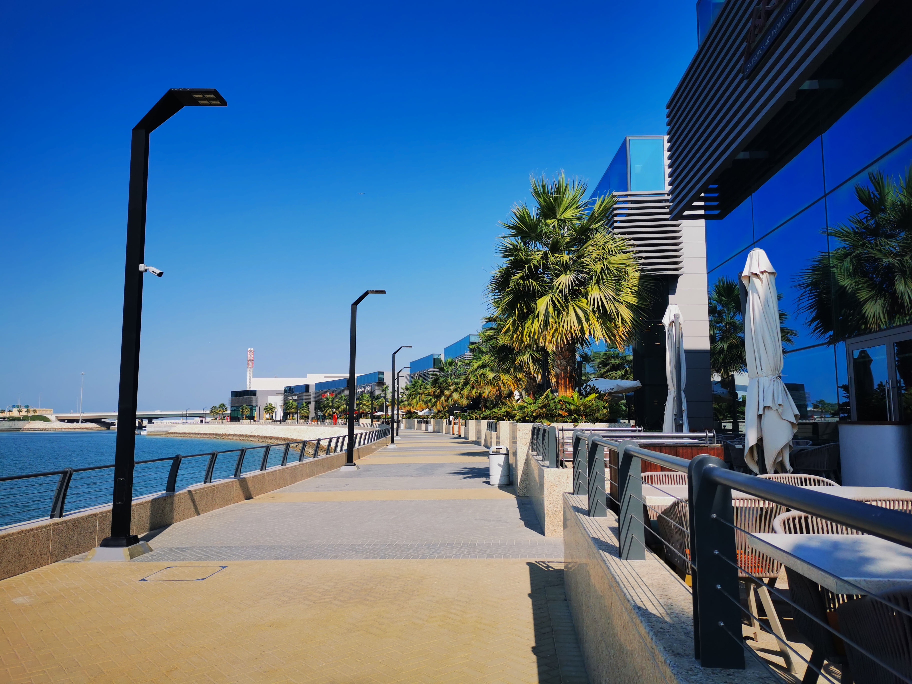 Coastline view of the Avenues mall and its walkway in Manama, Bahrain